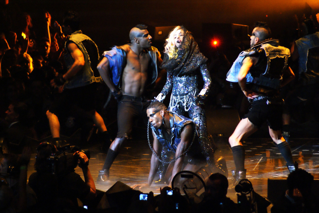 Lady Gaga performing "Poker Face" on The Monster Ball Tour (revamped version).